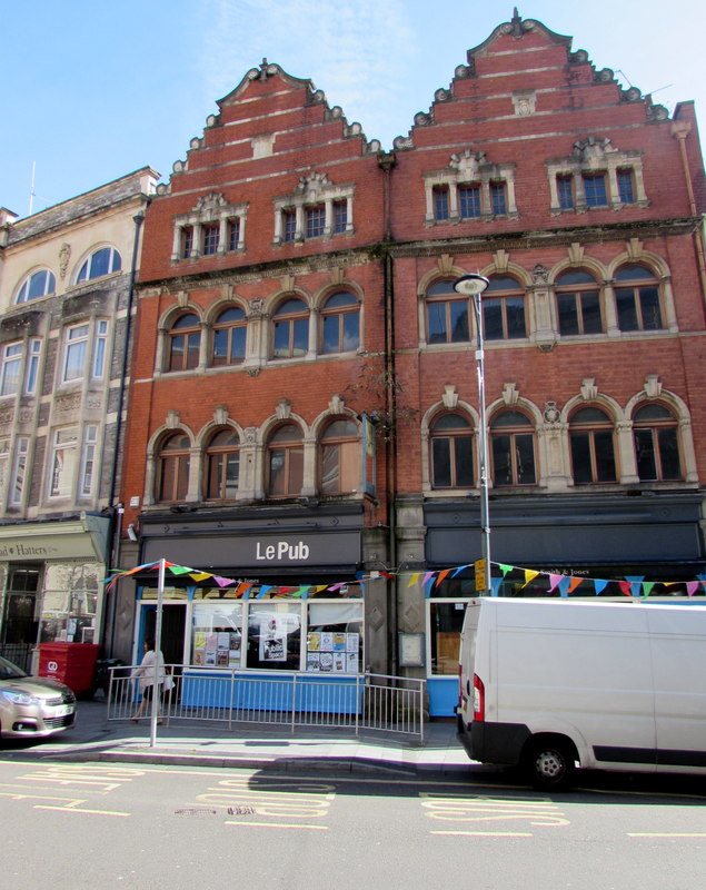 A photograph of the indie music venue and food outlet Le Pub, on 14 High Street, Newport. The photo was taken in September 2017. The venue was previously in Caxton Place, Newport.